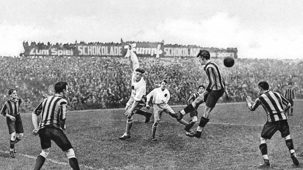 Exhibition game between the Uruguayan CA Peñarol and Hertha BSC from Berlin, Germany, in the Poststadion in Berlin on April 19, 1927. The match was part of an extensive tour through Europe by the Uruguayan team. Berlin won 1ː0.